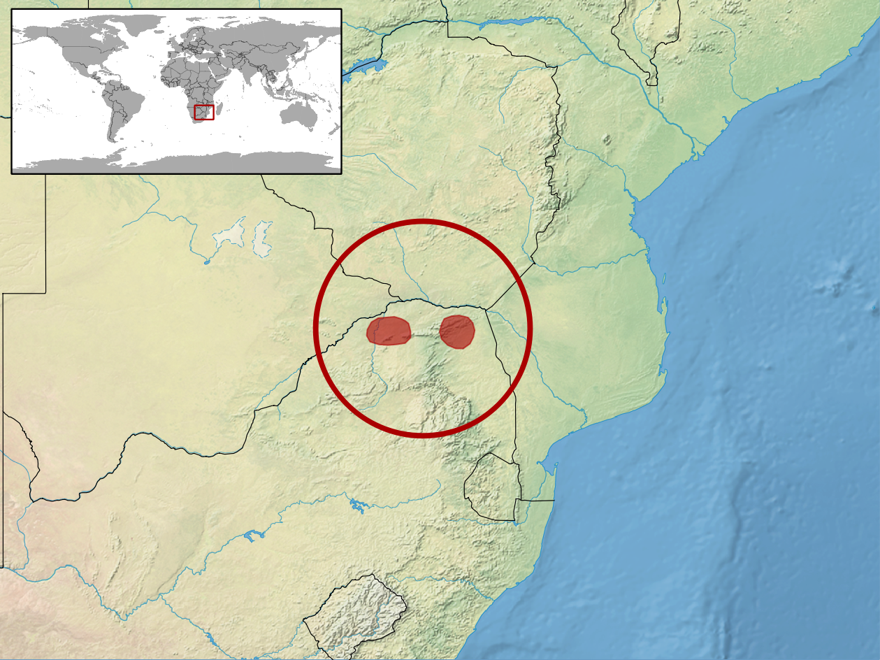 geographic distribution of Acontias richardi (JACOBSEN, 1987). IUCN lists T. lineatus richardi Jacobsen, 1987 as subspecies, though accepted as species (Acontias richardi (JACOBSEN, 1987)) in RDB. The range is based on IUCN's data for Typhlosaurus lineatus, but displays only the distribution in Limpopo Province, South Africa.